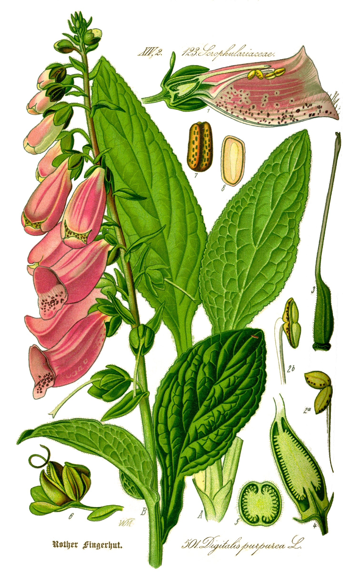 Digitalis purpurea, Clean version of Image:Illustration_Digitalis_purpurea0.jpg